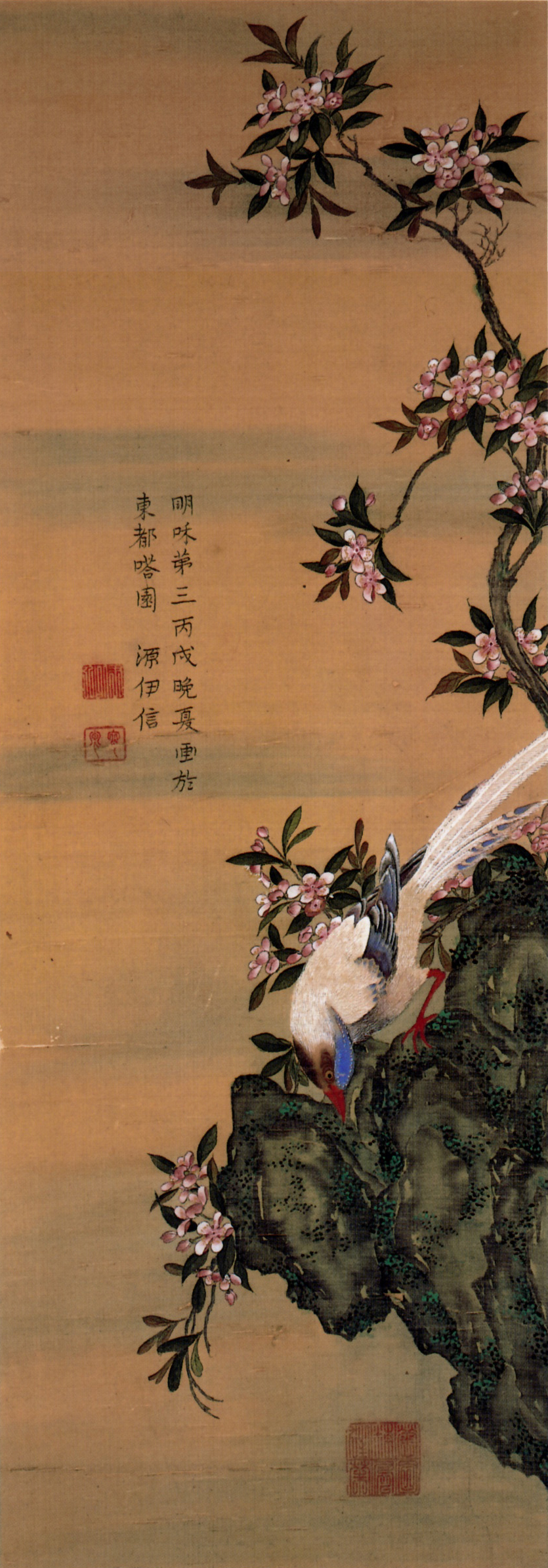 Aronia and small Birds,Yanagisawa Korenobu,hanging scroll ,color on silk